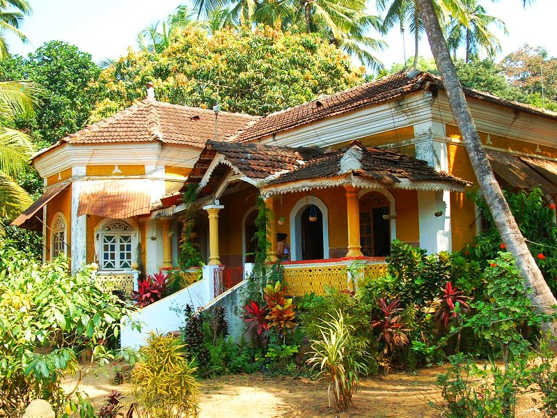 Portuguese Villa near Chapora